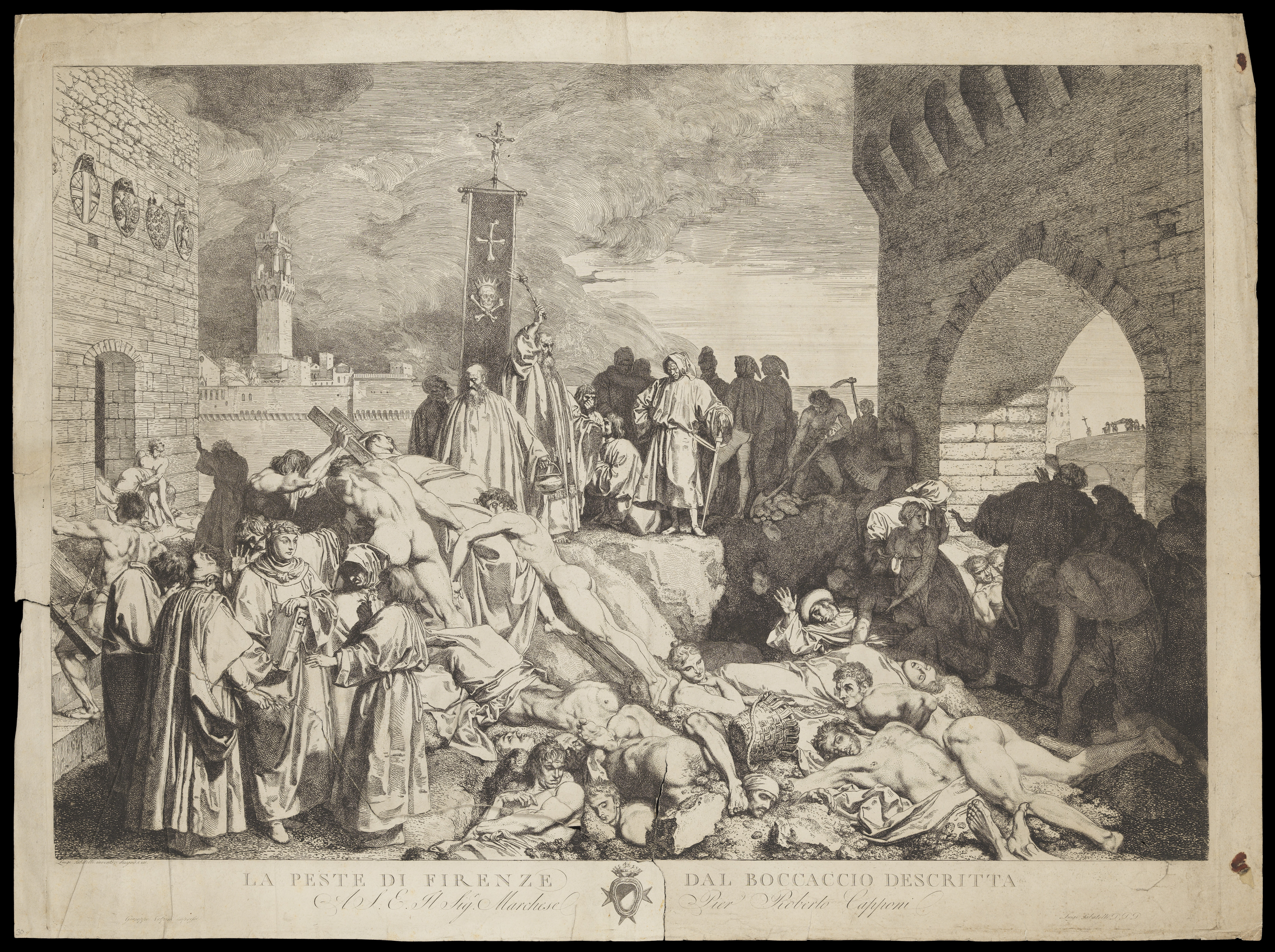 The plague of Florence in 1348, as described in Boccaccio's Decameron ('Il decameron'). Etching by L. Sabatelli after himself. Iconographic Collections Keywords: Black Death; Luigi Sabatelli; Pier Roberto Capponi; Plague; Giovanni Boccaccio